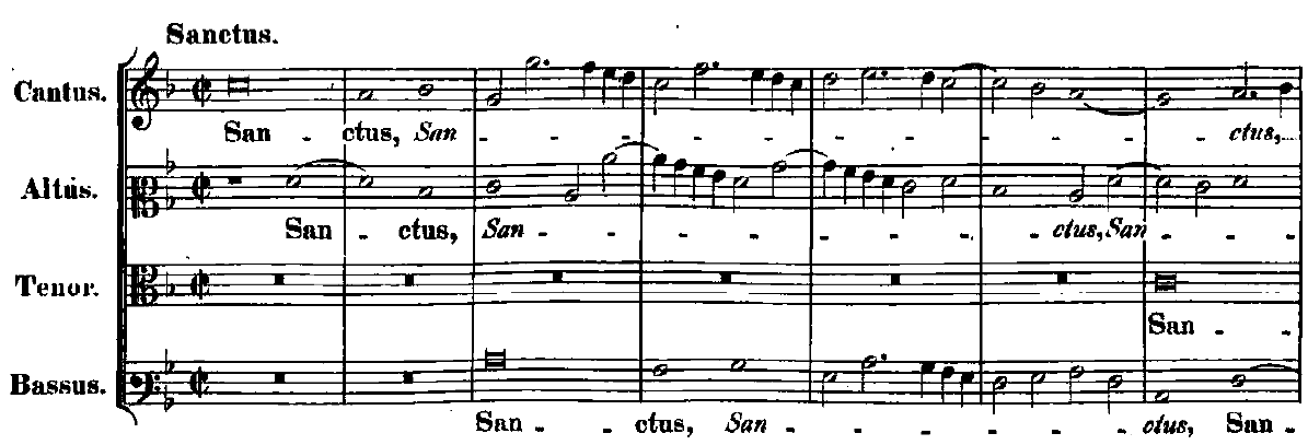 Short ecerpt from Sanctus